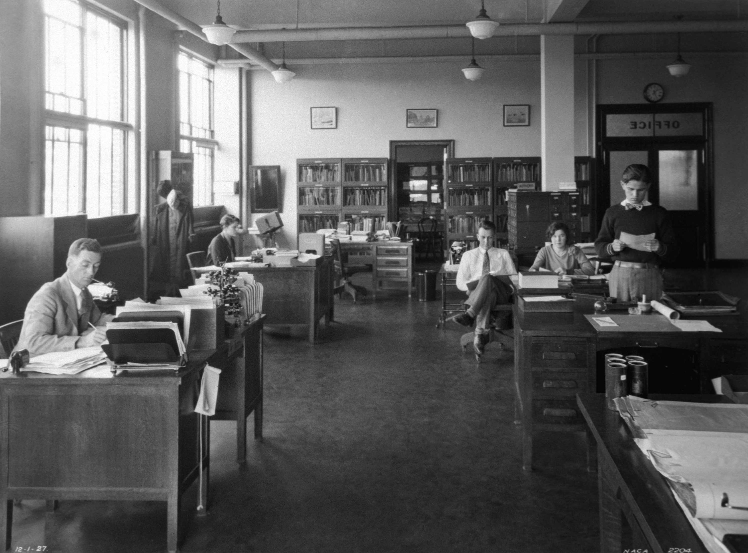 Langley administrative office in 1927. Note the blueprints on the table at right lower corner, and rubber stamp tree on the man's desk in left foreground.